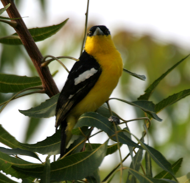 Common Iora Aegithina tiphia in Hyderabad, India.